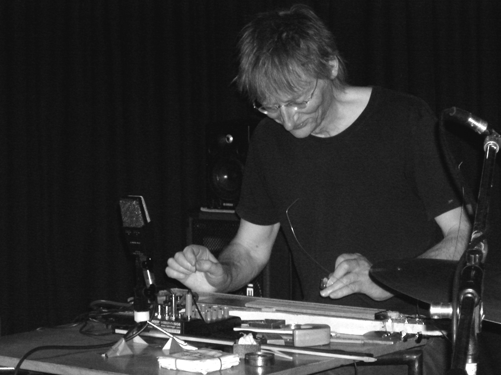 Jazz musician Tim Hodgkinson in concert with Konk Pack at Club W71 in Weikersheim